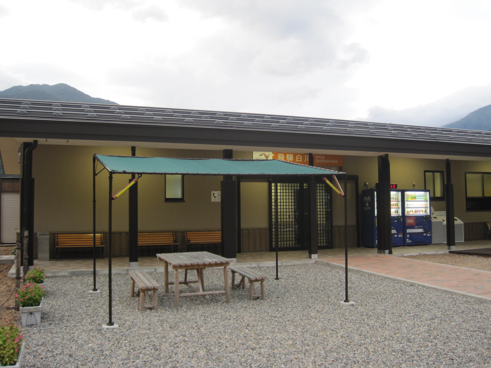 Hidashirakawa Parking Area(Tokai-Hokuriku Expressway)